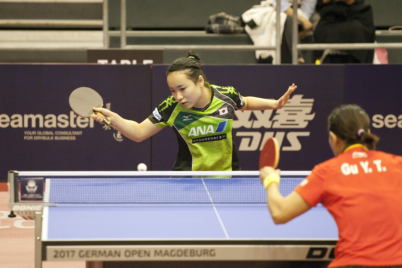 ITTF World Tour 2017 German Open, Magdeburg, Germany, 7 Nov 2017 - 12 Nov 2017, Mima Ito